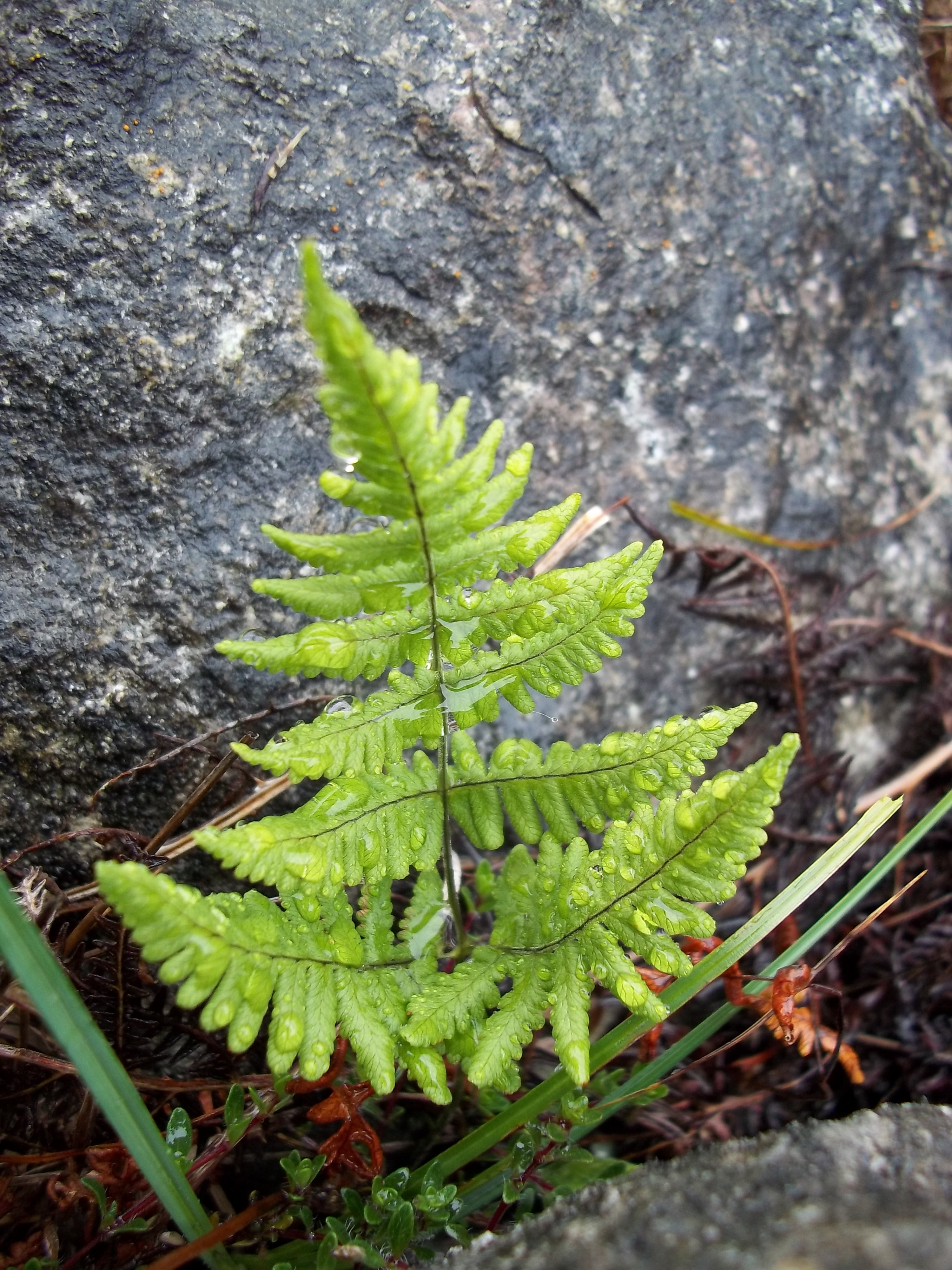 The fern Gymnocarpium robertianum growing on limestone pavement at its only extant Irish location near Ballisnahyny county Mayo.